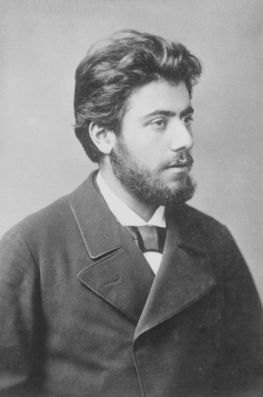 Gustav Mahler (1860–1911), Austrian composer.